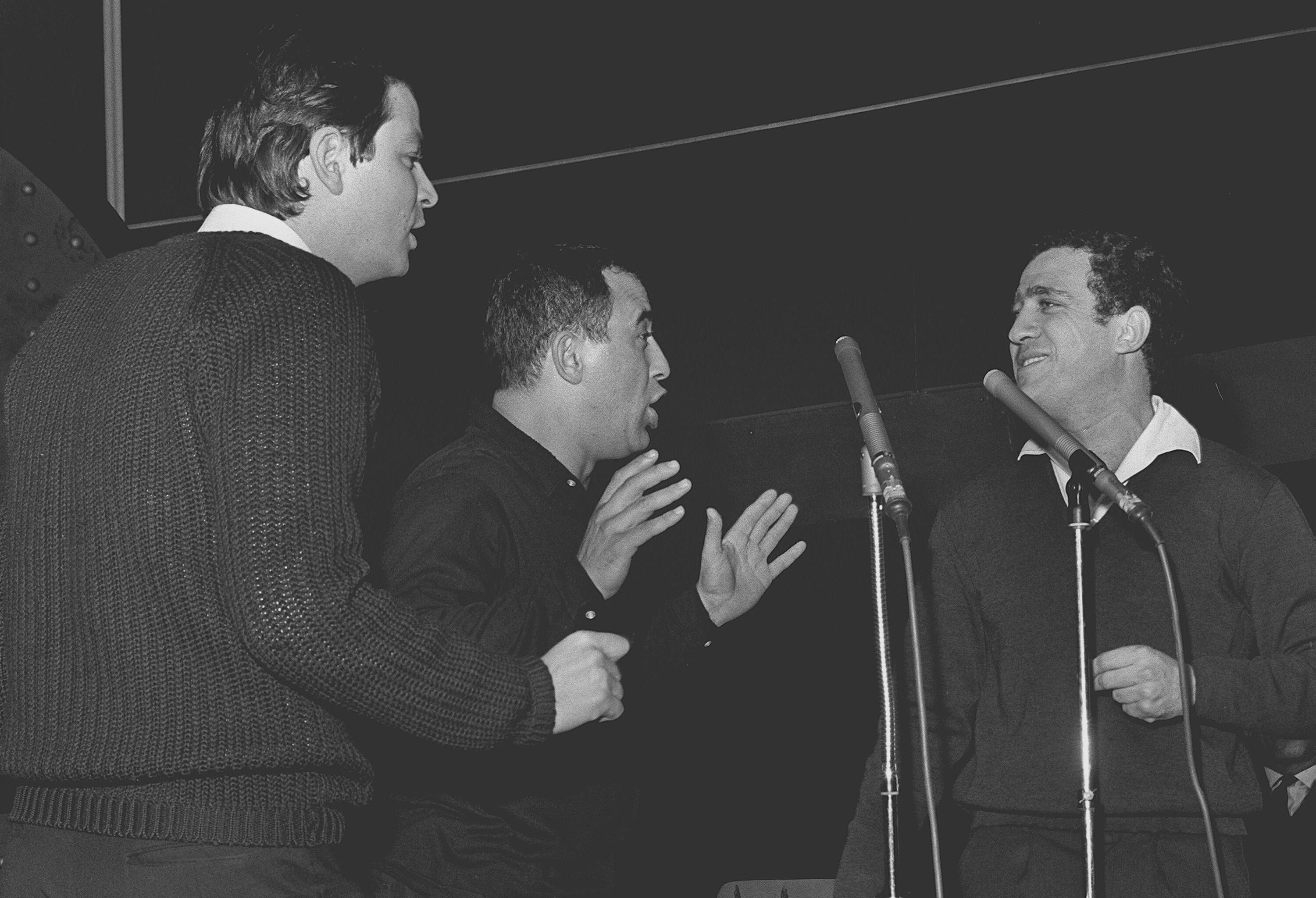 THE 1964 "KINOR DAVID" AWARD, HELD AT THE "CAMERI" THEATRE. IN THE PHOTO, THE "GESHER HAYARKON" TRIO (FROM L) ARIK EINSTEIN, BENNY AMDURSKI & YORAM GAON PERFORMING.